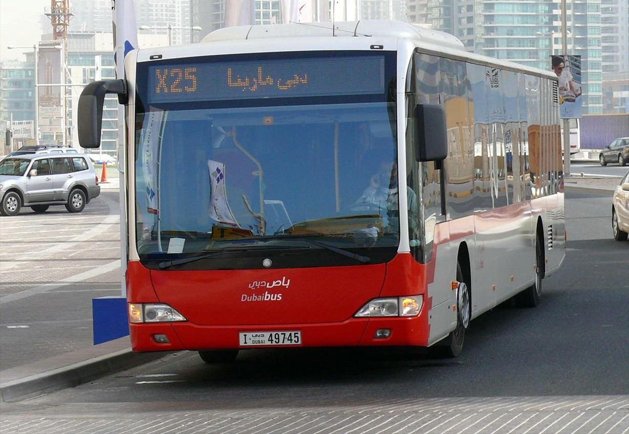 This is a photo of a Dubai Bus (Route X25), sitting in Dubai Marina in Dubai, United Arab Emirates, on 26 December 2007. The bus is a Mercedes-Benz Citaro.